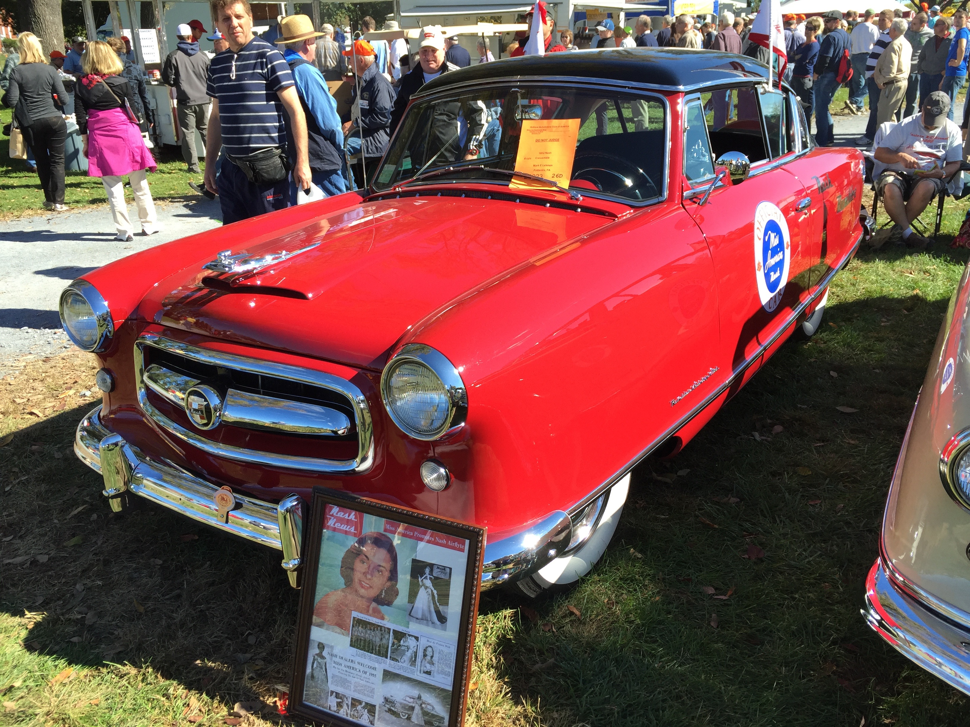 1954 Nash Rambler Custom Country Club, a compact-sized two-door hardtop (no center or "B" pillar) finished in optional two-tone paint: red with black top. Styling was credited to Pininfarina, with the designer's logo mounted on the car's reverse slanted "C" pillars. The continental kit (external spare tire mount) was standard in the Custom trim models. Picture taken on the show field of the Antique Automobile Club of America (AACA) 2015 Eastern Regional Fall meet that is held every October in Hershey, Pennsylvania.